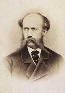 Fritz Sigfred Georg Melbye (1826-1869), Danish painter